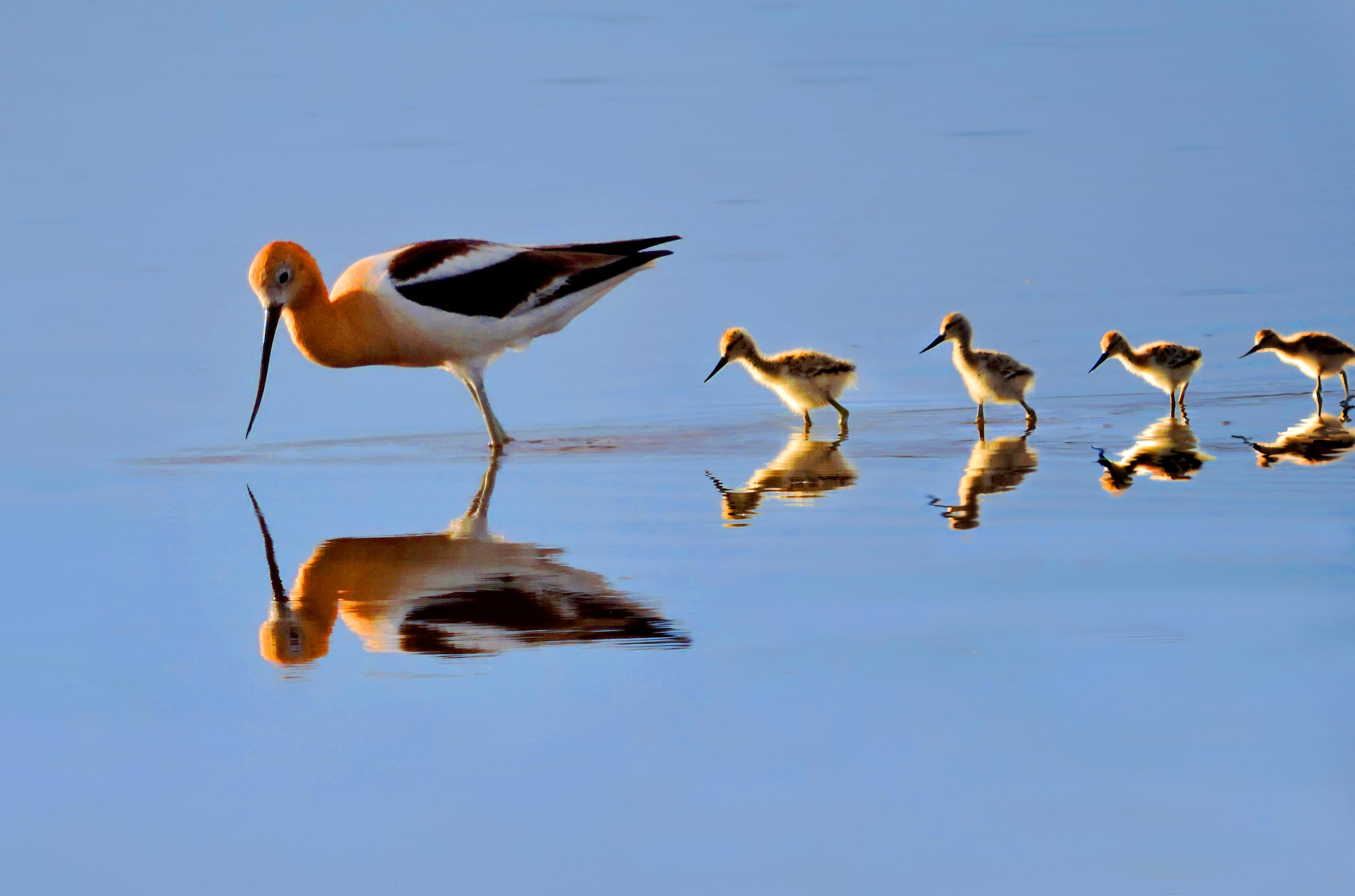 NPS/Patrick Myers Even in a dry year, shorebirds persevere in small oases of life in and near Great Sand Dunes National Park and Preserve. American Avocets arrive in early April, often when the weather is still blustery or snowy. Their mating dances include side-by-side promenades through wetlands with their long, slender bills crossed. Fluffy, golden chicks arrive as the weather warms, and they soon follow their parents around, learning to catch aquatic insects in shallow water. The #YearOfTheBird celebration continues throughout 2018! GreatSandDunes #Bird #Birds #Avocet #AmericanAvocet #Chicks #Babies #Parenting #Teaching #Training #Reflection #Reflections #FindYourPark #EncuentraTuParque